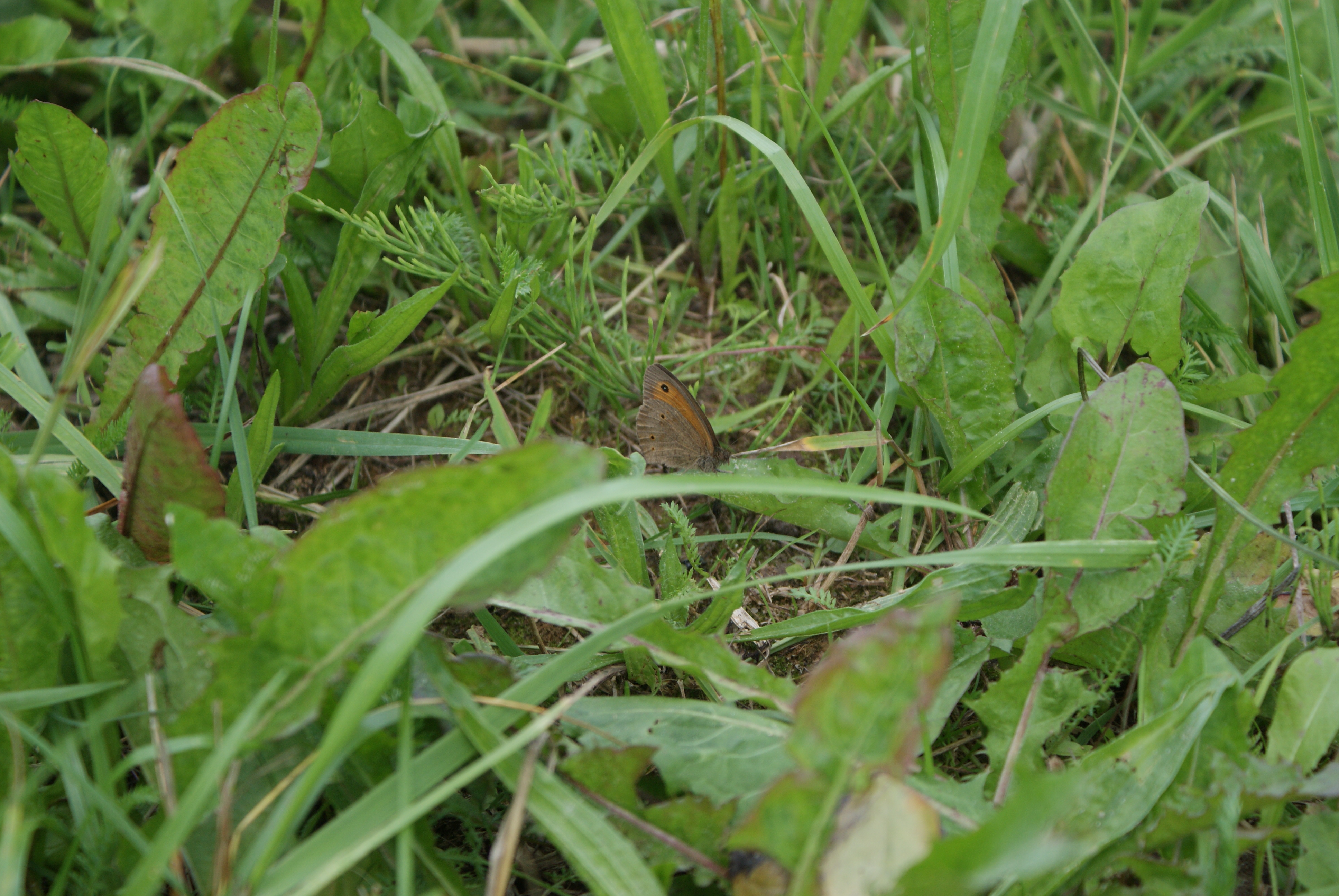 Unidentified Lepidoptera in Slavgorod, Belarus